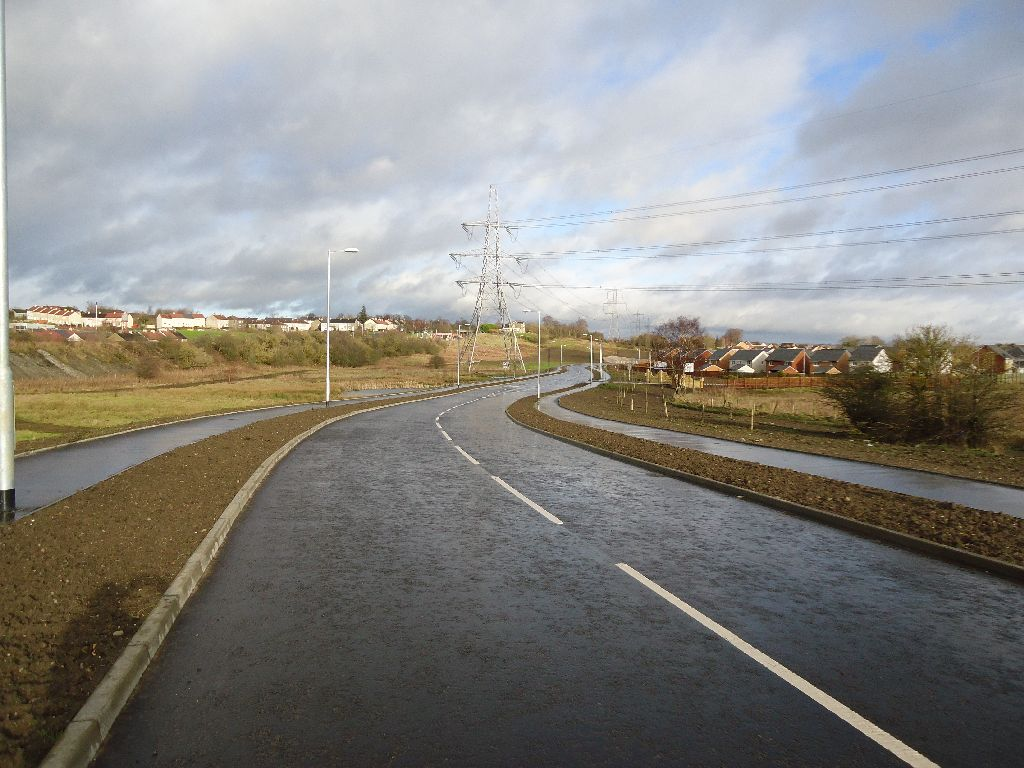 Baillieston, the new Serpent's Twist